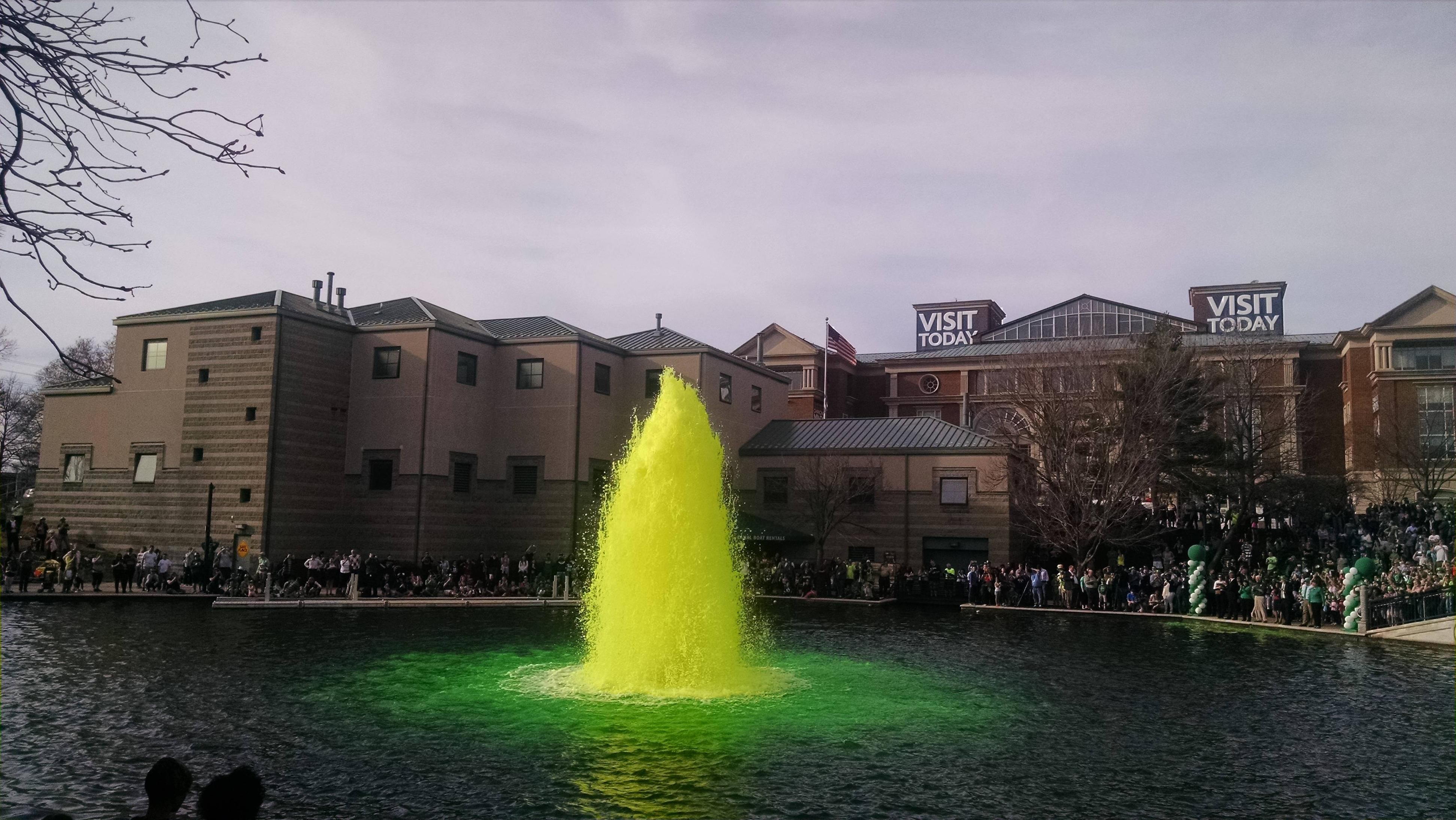 The White River in Indianapolis dyed green for St. Patrick's Day on March 16, 2015